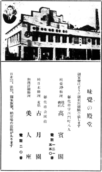 An advertisement in a traveling guide book of Japanese Formosan restaurants in 1942